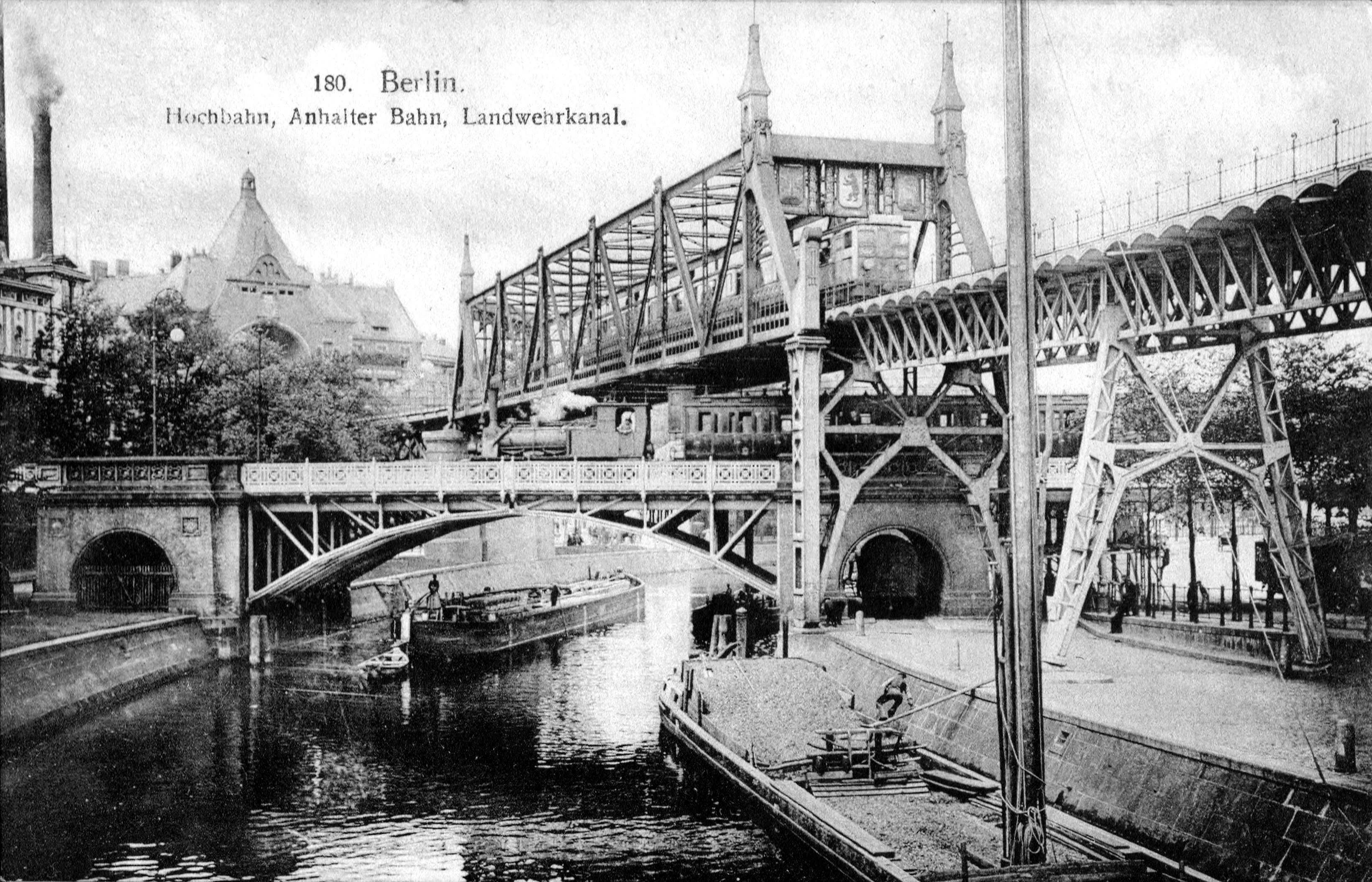 Prussian T3 loco doing shunting work on railway bridge over the Landwehrkanal in Berlin, Germany.